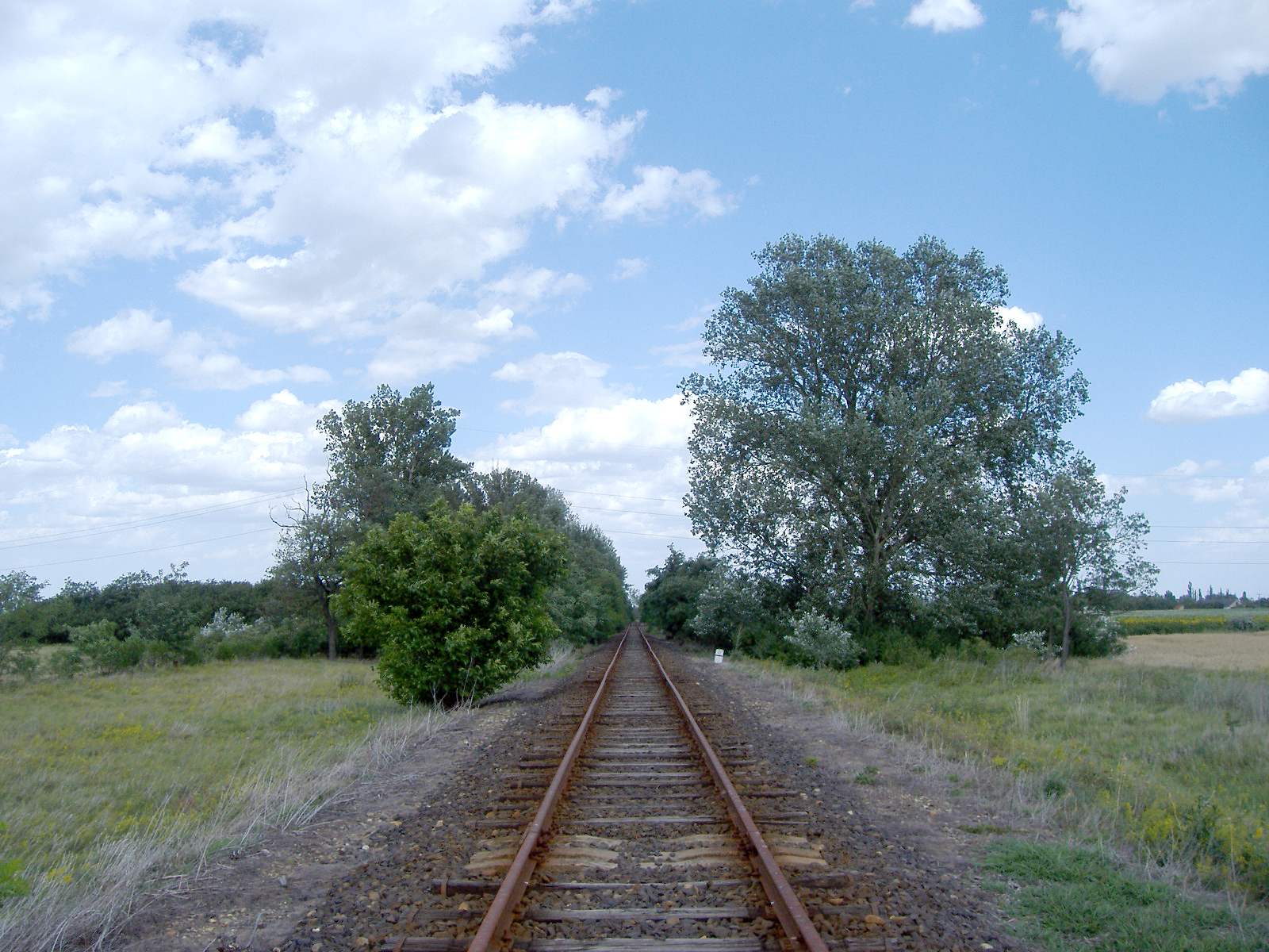 The Békés-Murony railway line 4 months after closure.